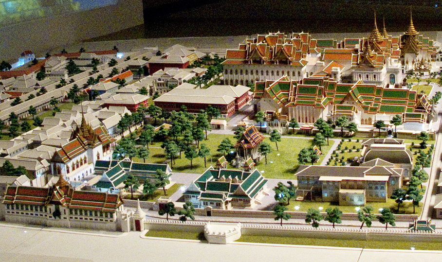 Model of Grand Palace at Nitasrattanakosin Exhibition Hall, Bangkok, Thailand